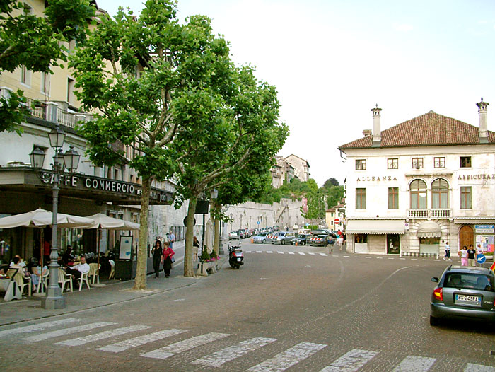 via Roma